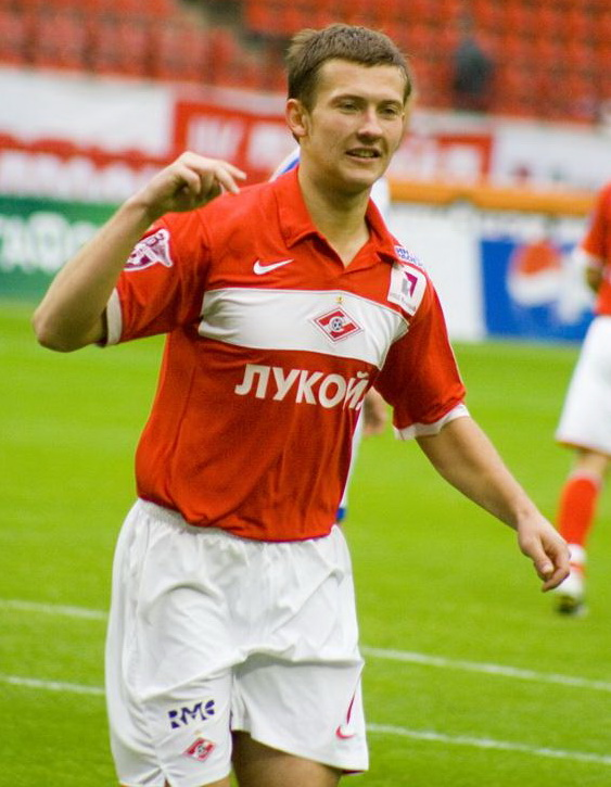 Alexandr Pavlenko